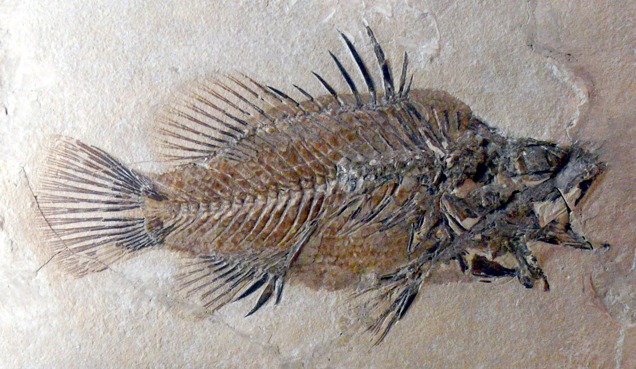 Lates gracilis / Eolates gracilis Eocene, from Monte Bolca, Italy